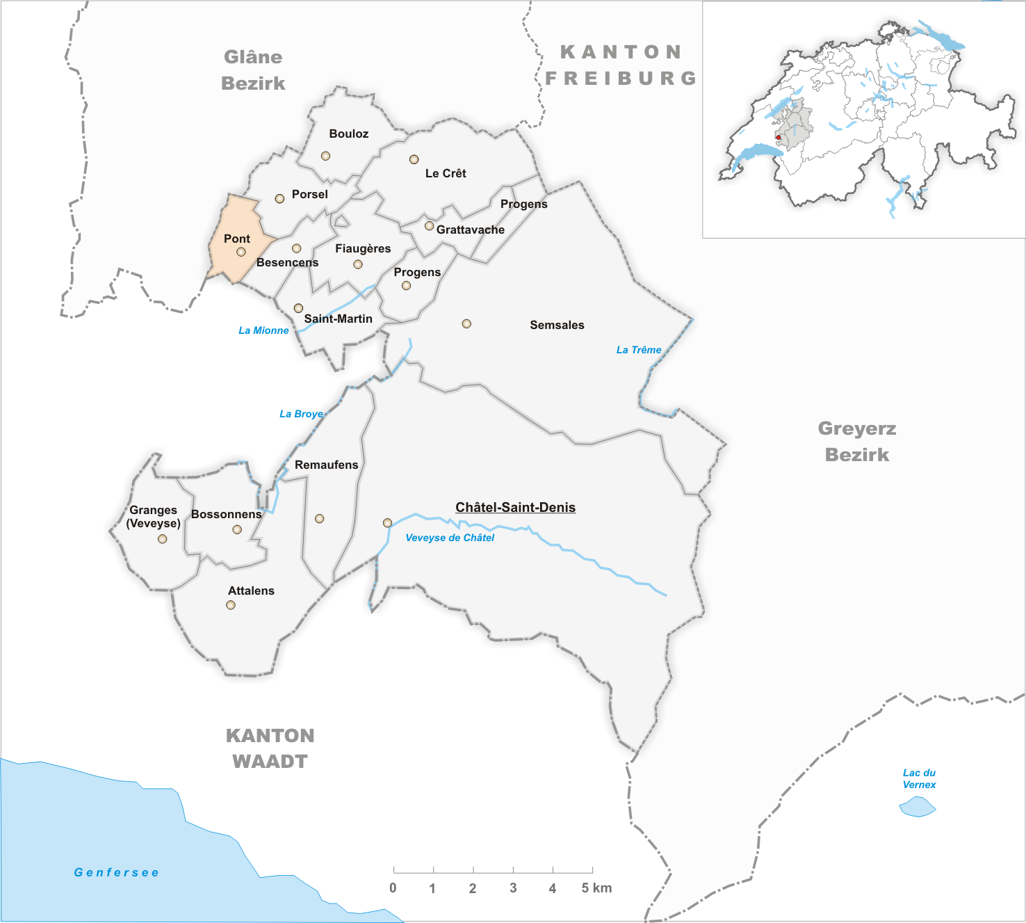 Municipality Pont Artist: Tschubby